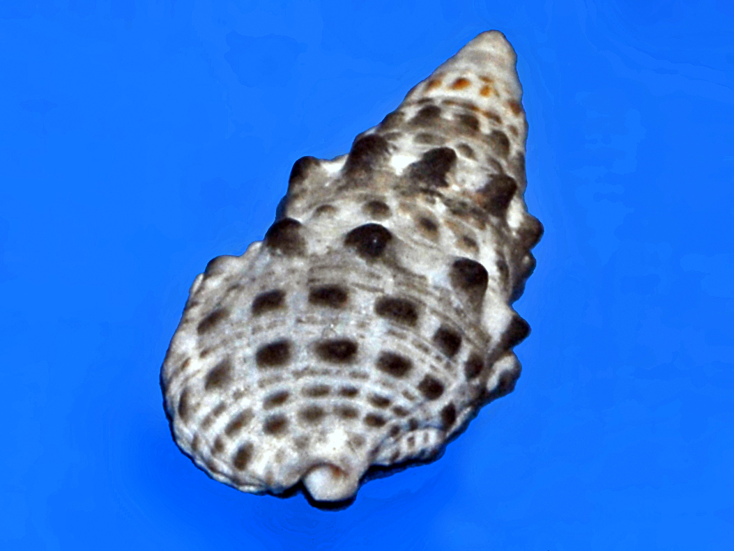 Shell of Cerithium caeruleum from Tanzania, on display at the Museo Civico di Storia Naturale di Milano